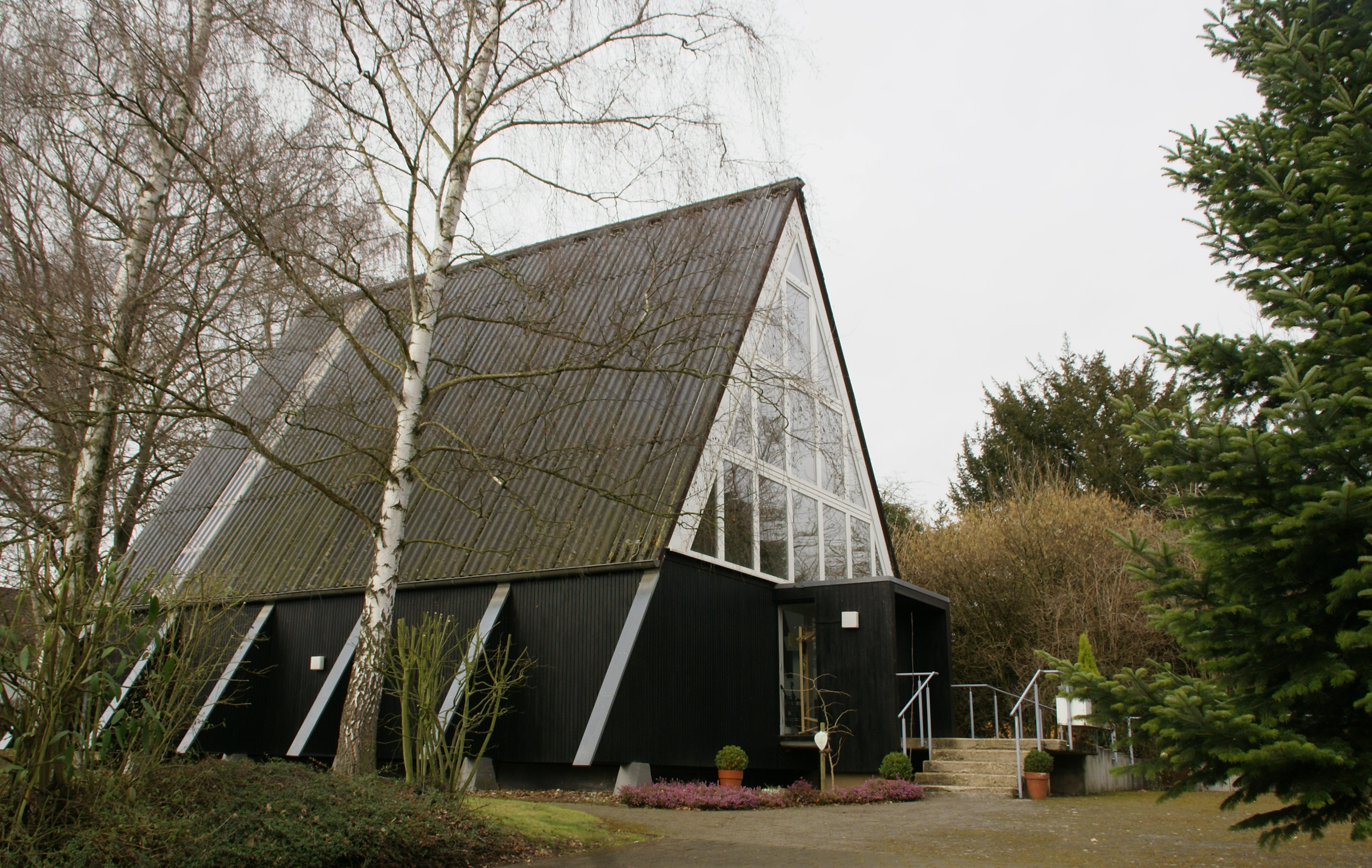 Protestant church in Stieldorf, Oelinghovener Straße